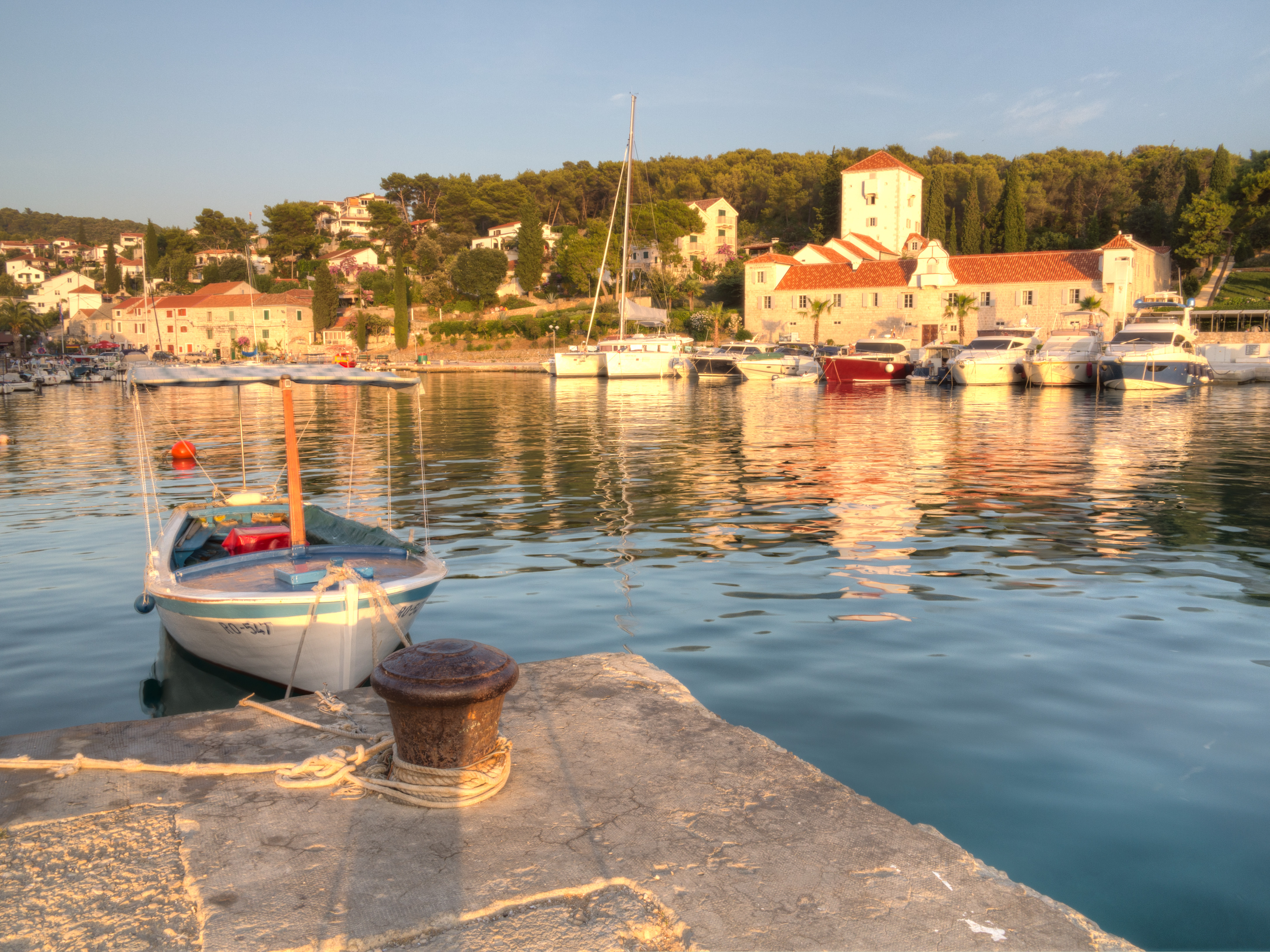 The Port of Maslinica on the island Šolta / Adriatic Sea / Croatia / EU. Atmosphere at sunset, looking towards the southeast. At the pier is a fishing boat. In the background on the southern shore of the harbor is the Castle Martinis Marchi, built by Petar brothers (1706-1708), now a luxury hotel.